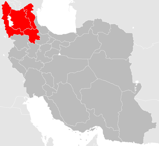 Main maps I found on Wikipedia Commons did not include the Azerbaijani-majority province of Zanjan as Iranian Azerbaijan, so I decided to add it